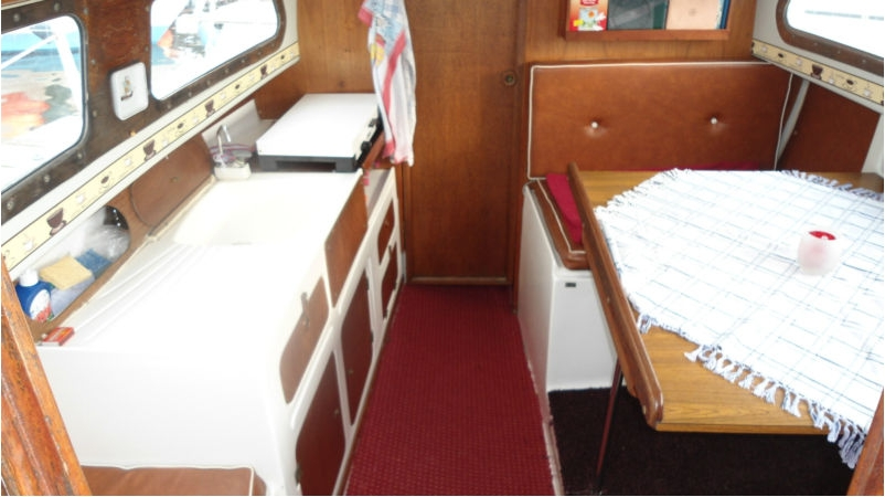 Leisure 23 salon